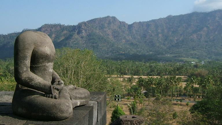 Headless Buddha statue at Borobudur